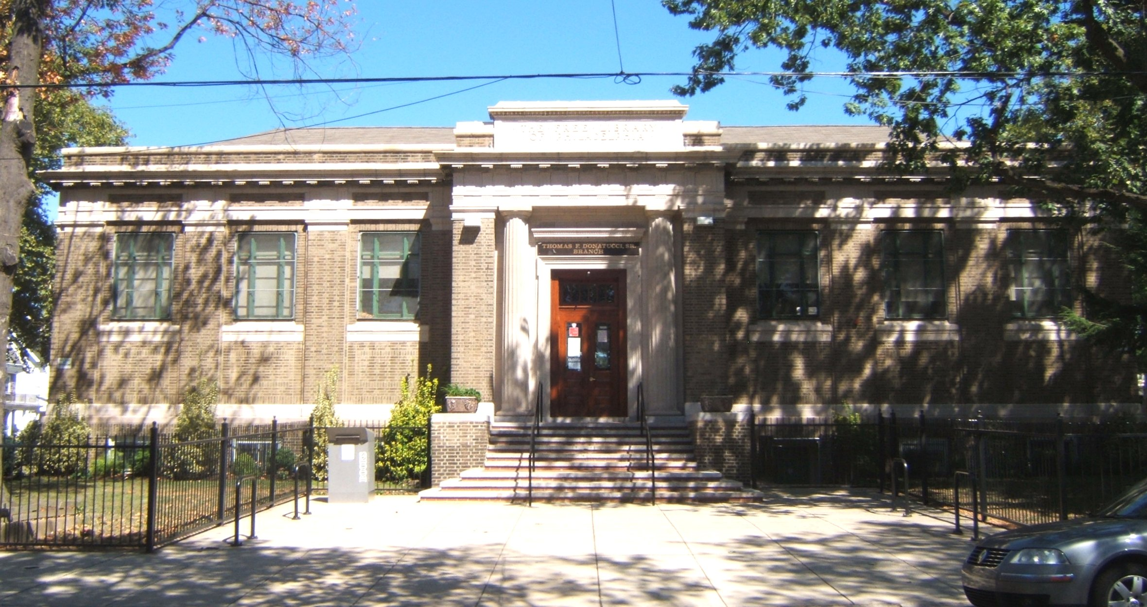 Free Library of Philadelphia, Thomas F. Donatucci, Sr. Branch Library (formerly Passyunk Branch), 1935 Shunk Street,Philadelphia, PA 19145-4234 Object location39° 55′ 10.64″ N, 75° 10′ 48.72″ W